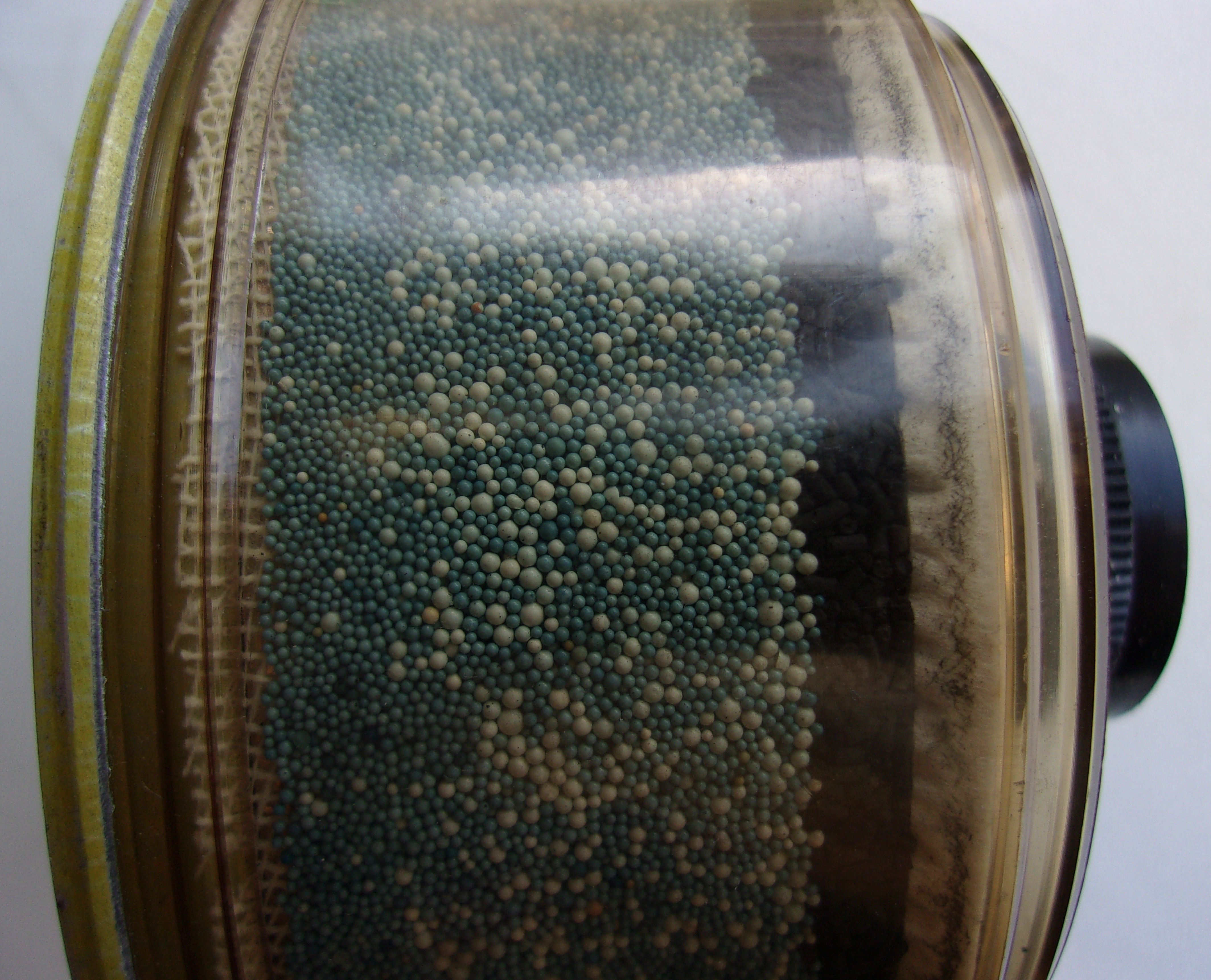 Combined gas and particulate respirator filter for protection against acid gases, the type of BKF (БКФ). It has transparent body and special sorbent that changes color after the saturation. This color change may be used for timely replacement of respirators' filters (like End of Service Life Indicator ESLI). The filter is made, presumably, in the city of Dzerzhinsk, Nizhny Novgorod region (RF).